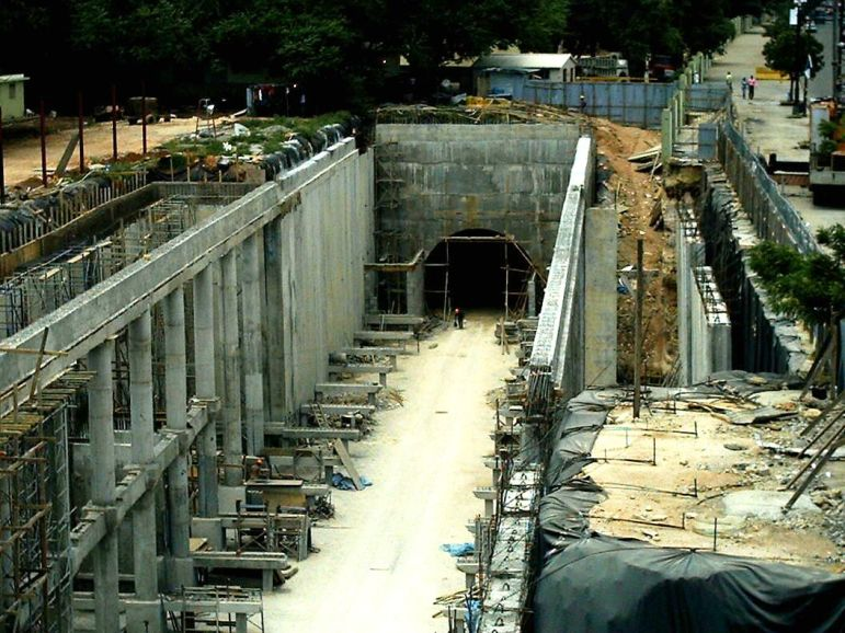 Description: The construction of the first subway system in the capital of the Dominican Republic. -Source: Own work. -Date: September 1st, 2006. -Author: Me. -Permission: I am the owner of this picture, and therefore release it into the public domain.